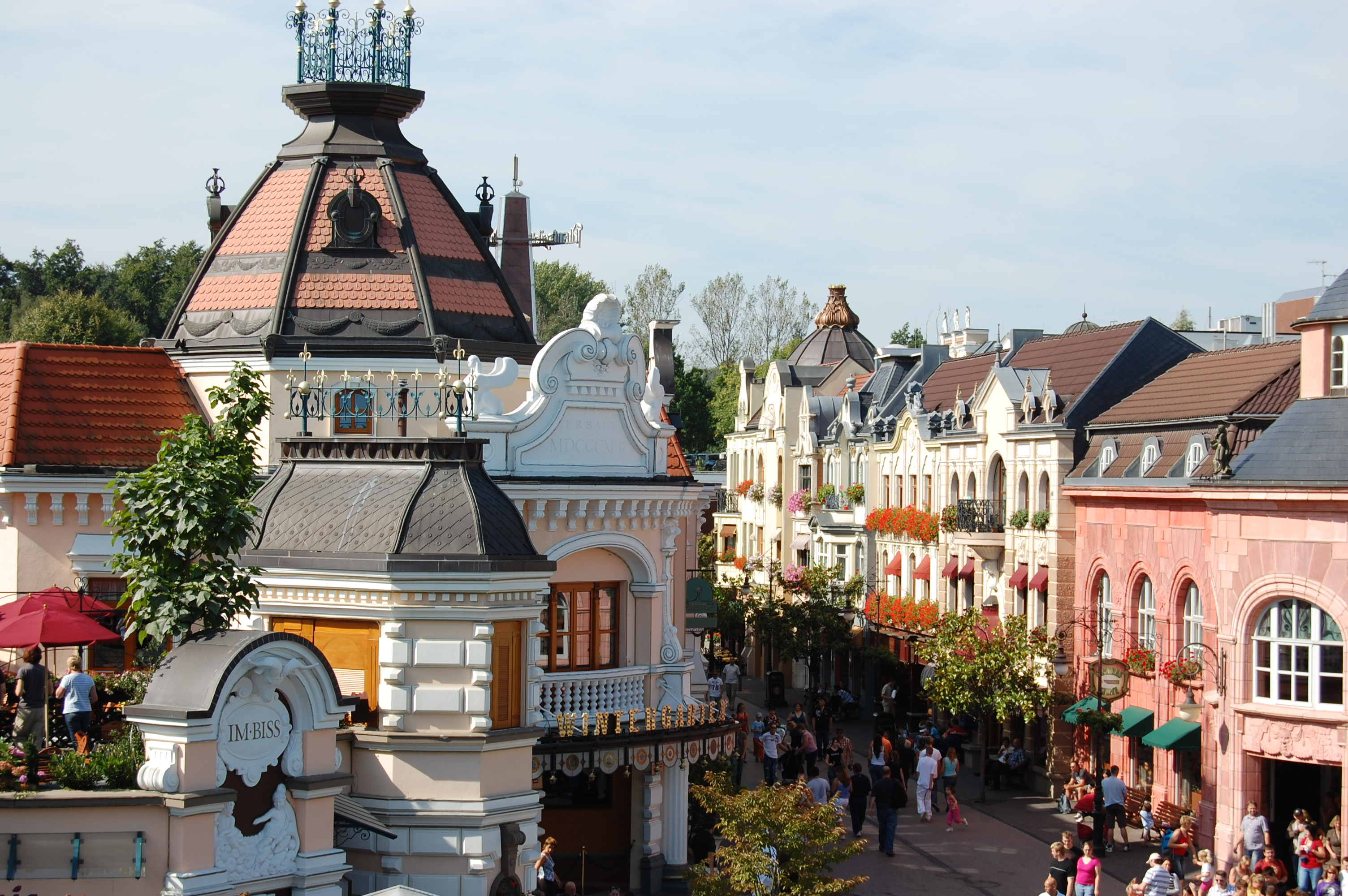 attraction in Phantasialand, Bühl (Germany) attraction in Phantasialand, Bühl (Germany)